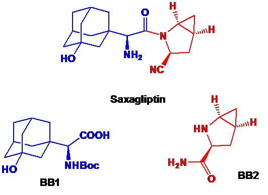 Examples of building blocks for an existing drug